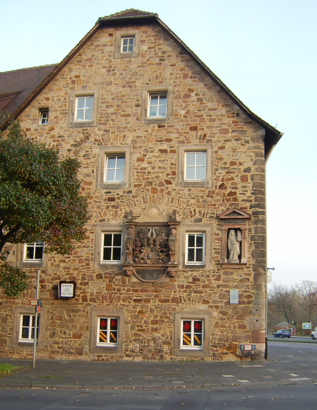 Elisabethhospital (Kassel, Germany), photographiert von Carroy 9.11.2005 20:32, 13. Nov 2005 Carroy 1110 x 1434 (1120070 Byte) ( Elisabethhospital (Kassel) , selbst photographiert 9.11.2005)